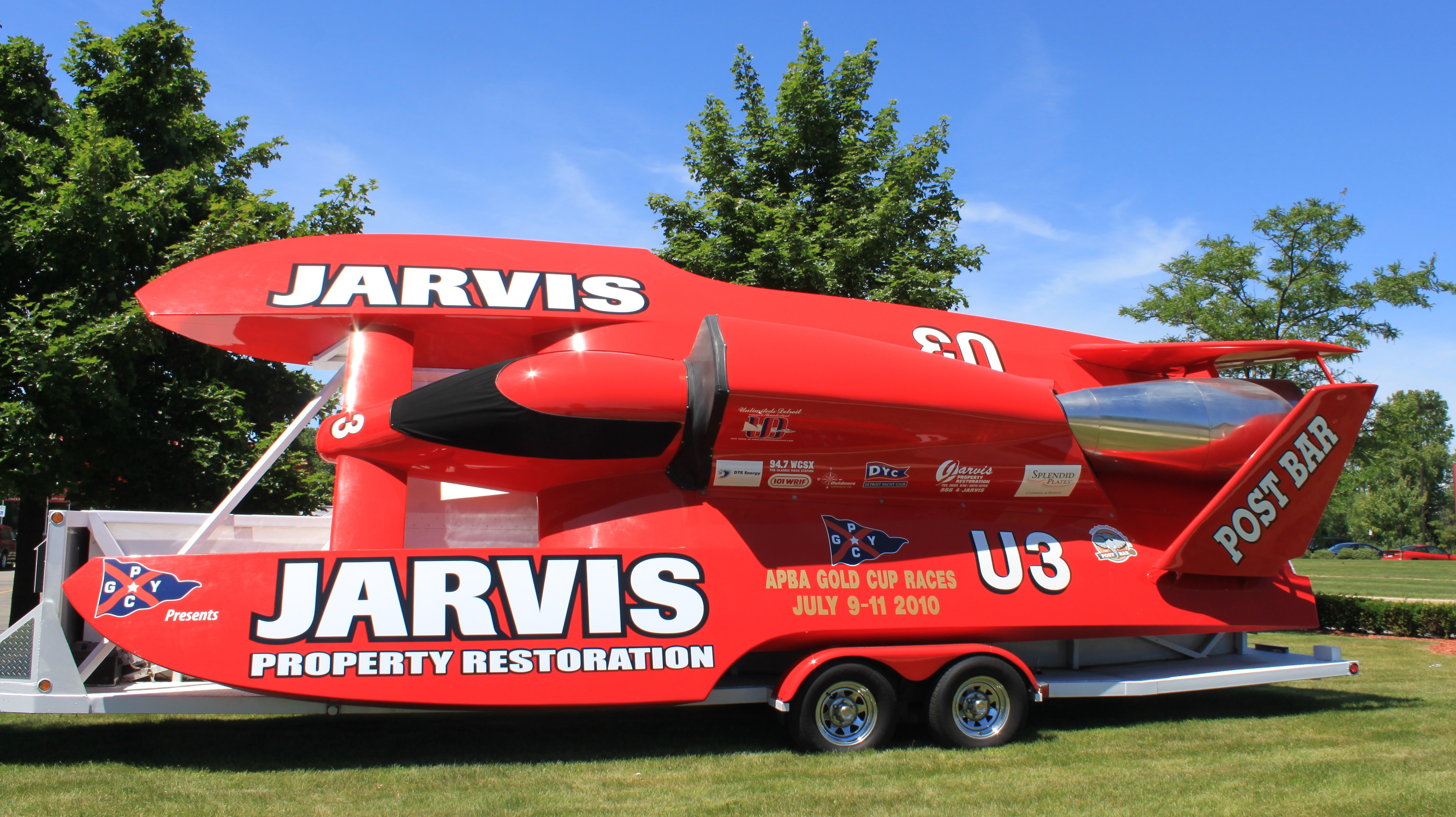 Miss Jarvis hydroplane on transort trailer, Pittsfield Township, Michigan